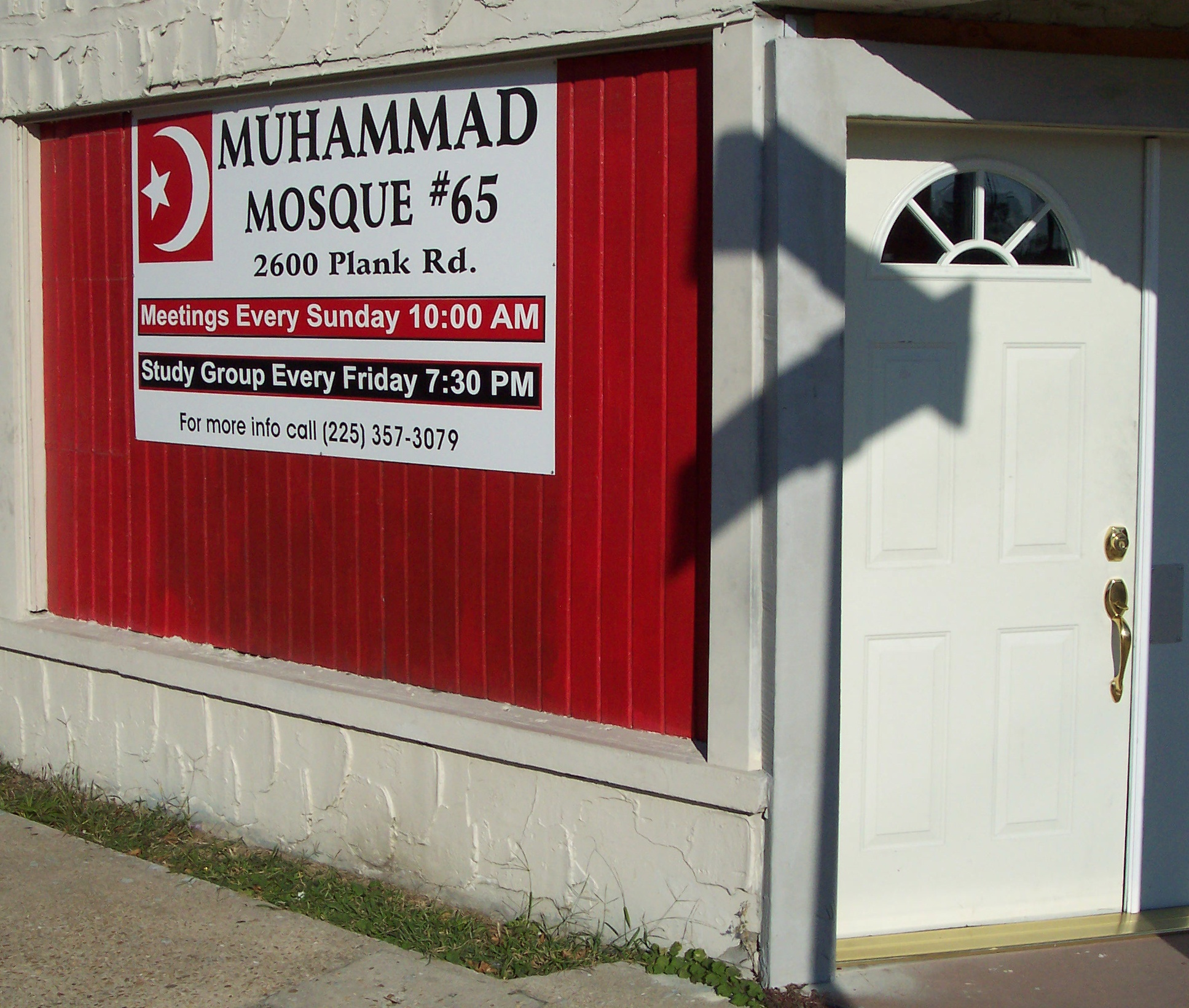 Photograph of Nation of Islam mosque. Sign and portion of building. Sign reads "MUHAMMAD MOSQUE #65." Location: Baton Rouge, Louisiana, United States, intersection of Plank Road (Highway 67) and Seneca Street.